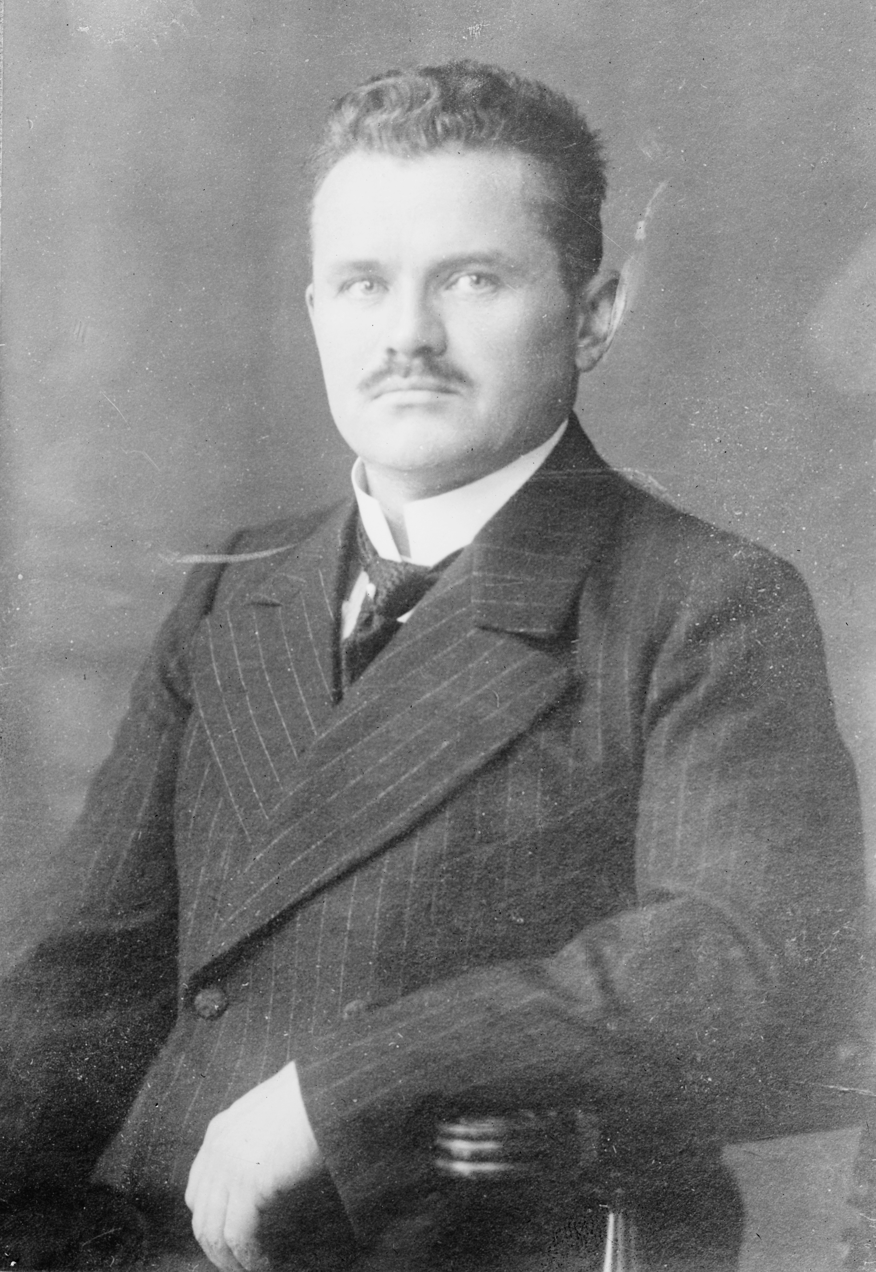 Bain News Service,, publisher. Hugo Kaulen [no date recorded on caption card] 1 negative : glass ; 5 x 7 in. or smaller. Notes: Title from unverified data provided by the Bain News Service on the negatives or caption cards. Forms part of: George Grantham Bain Collection (Library of Congress). Format: Glass negatives. Repository: Library of Congress, Prints and Photographs Division, Washington, D.C. 20540 USA, General information about the Bain Collection is available at Persistent URL: Call Number: LC-B2- 2769-3a Comments and faves